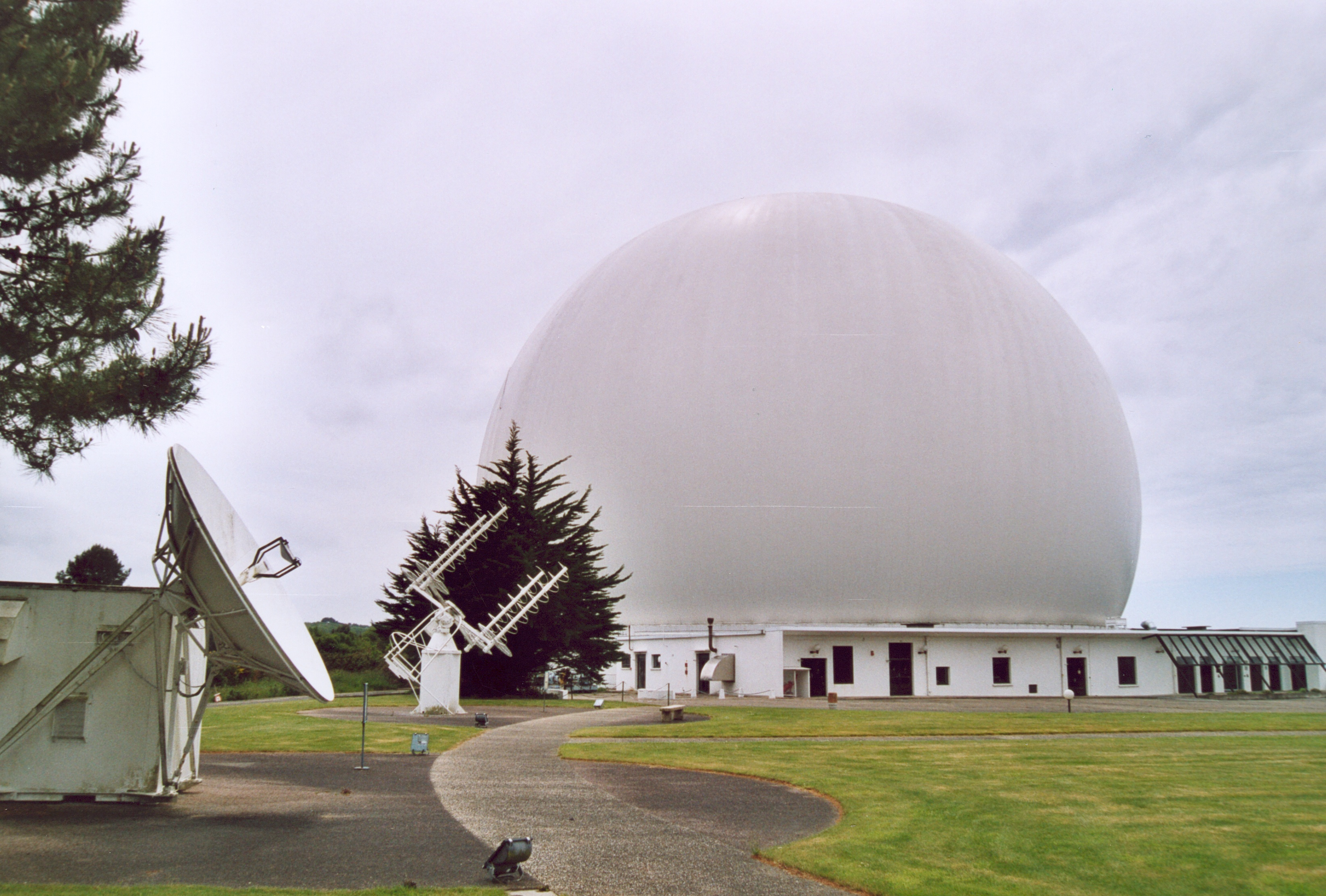 Space telecommunication center Pleumeur-Bodou, Côtes d'Armor, France